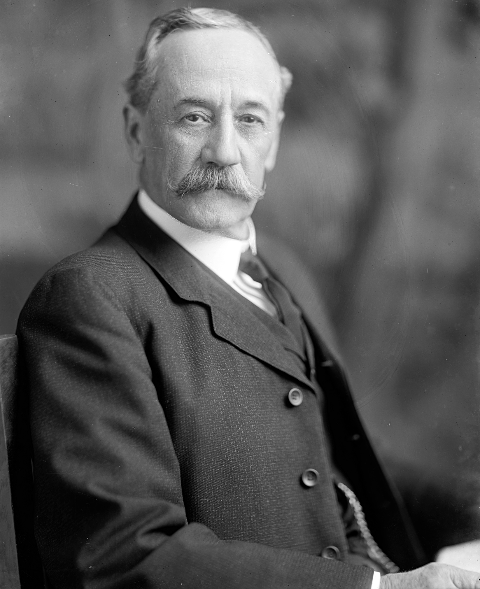 Robert Turnbull, US Representative from Virginia